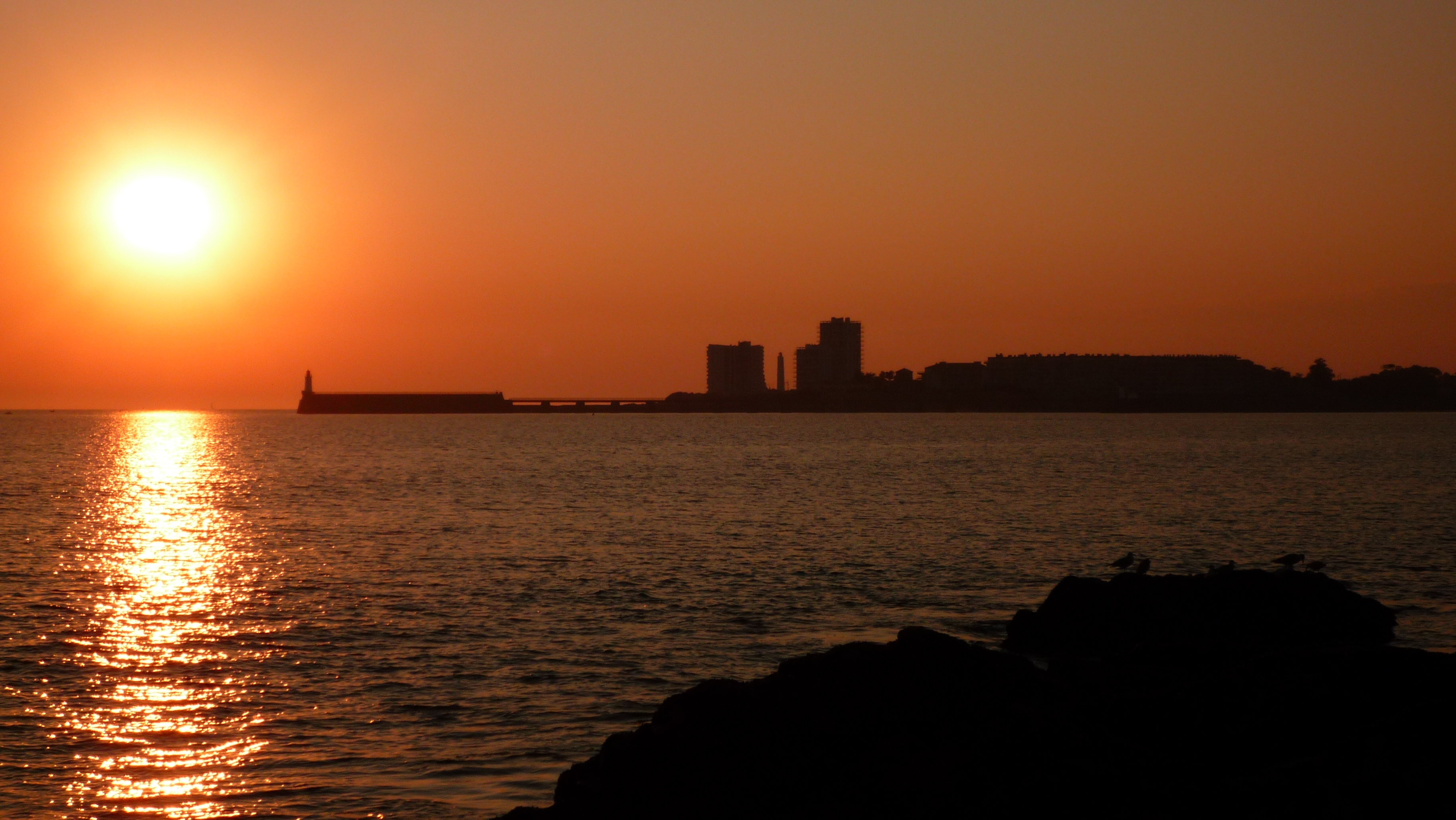 Les Sables-d'Olonne.